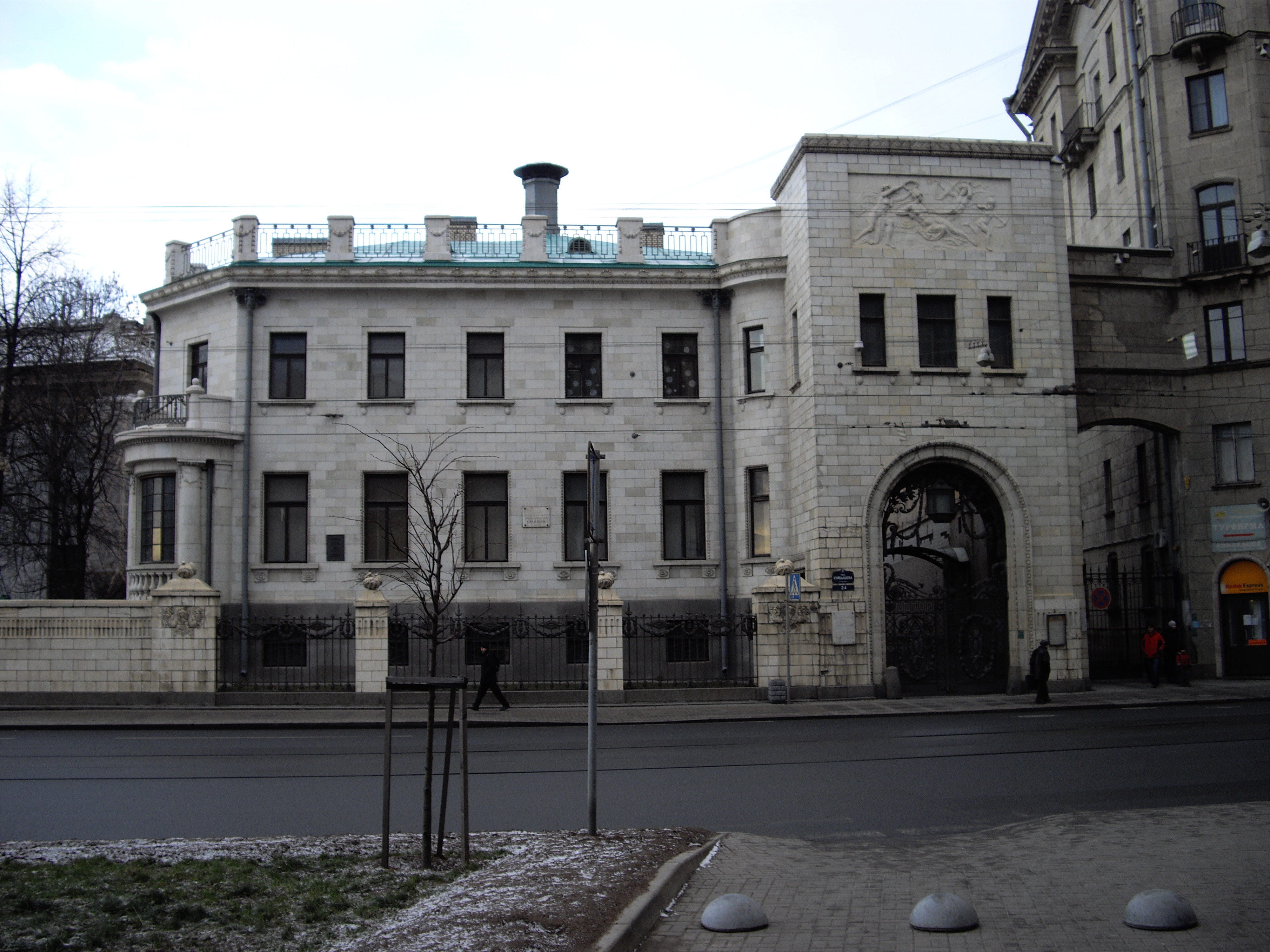 4, Kuibyshev Street (former baron Brandt's mansion, now a part of the Museum of Political History of Russia) in Saint Petersburg (1909-1910, architect Robert-Friedrich Meltzer)